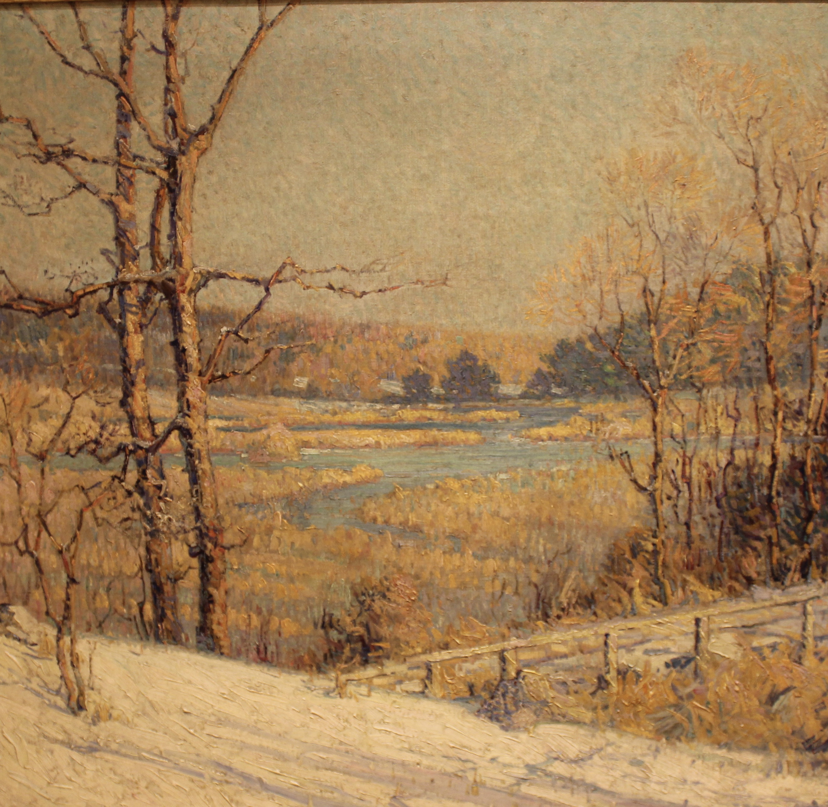 Photo of Meadows in Winter painting by George Loftus Noyes from Widener University Alfred O. Deshong Collection. Photo taken in March 2019.